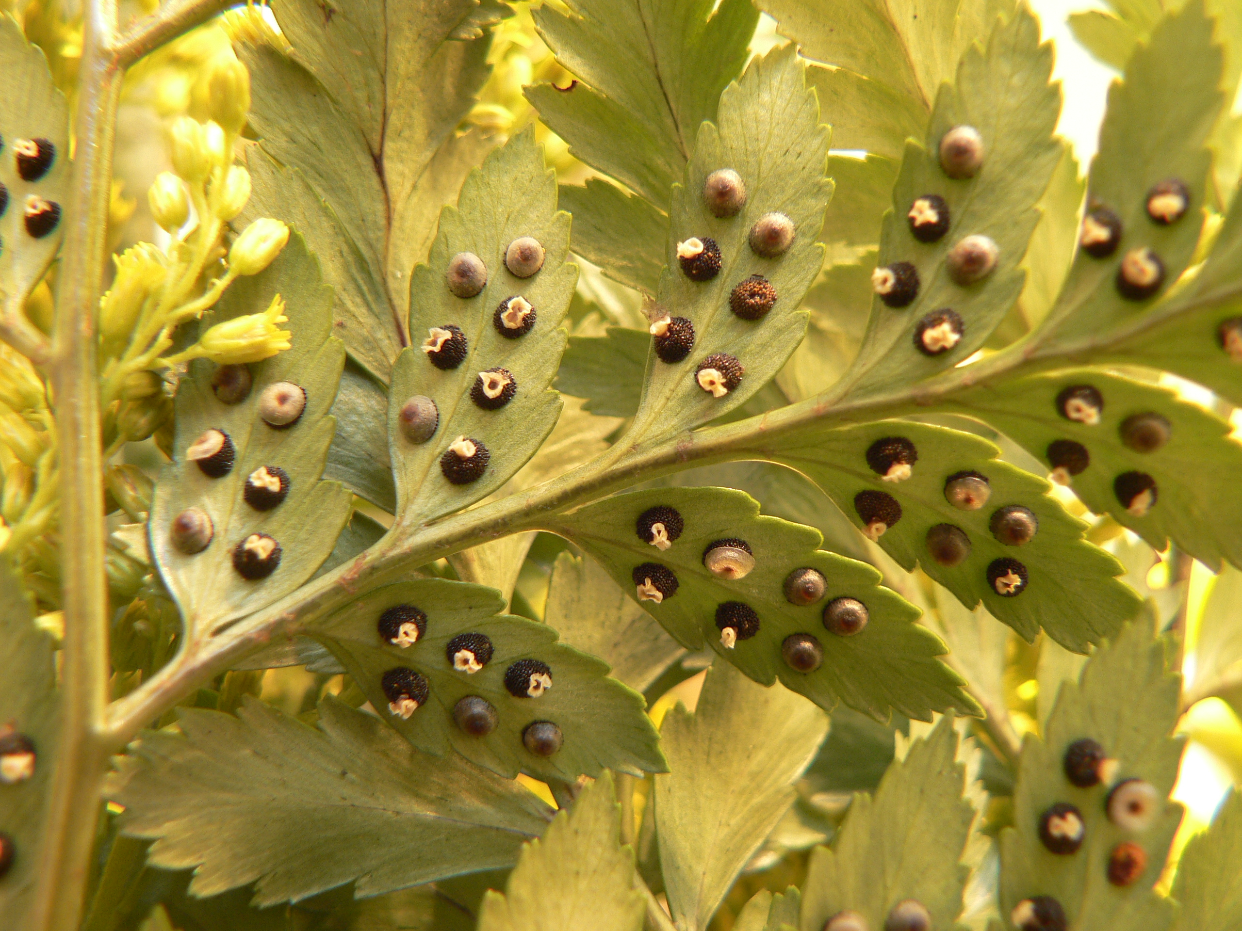 I took this photo with my Panasonic FZ5 with additional dioptre correction close-up lenses. The sori are about 2mm in diameter. The indusia are clearly visible in various stages of development.